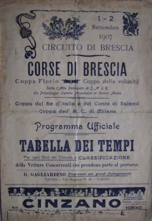 Poster for the 1907 Coppa Florio and Coppa di Velocità in Brescia. These were arranged on 1 and 2 September 1907, respectively. Race track: Circuito di Brescia.